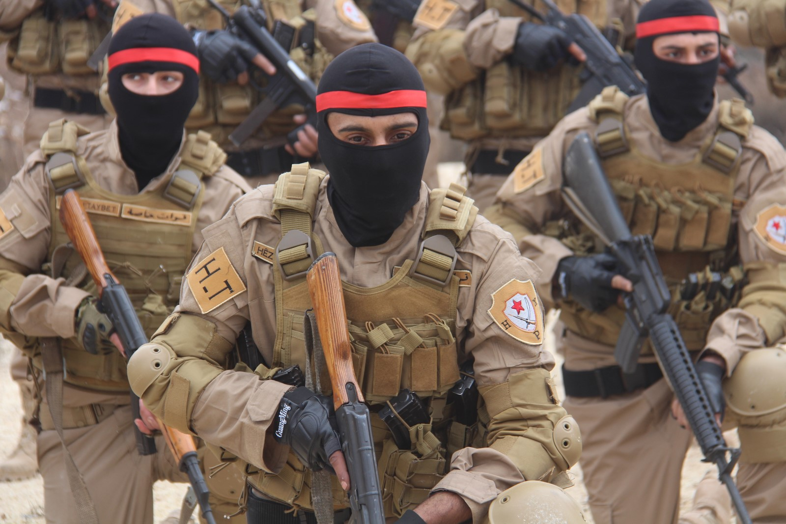 YPG special forces pose with rifles